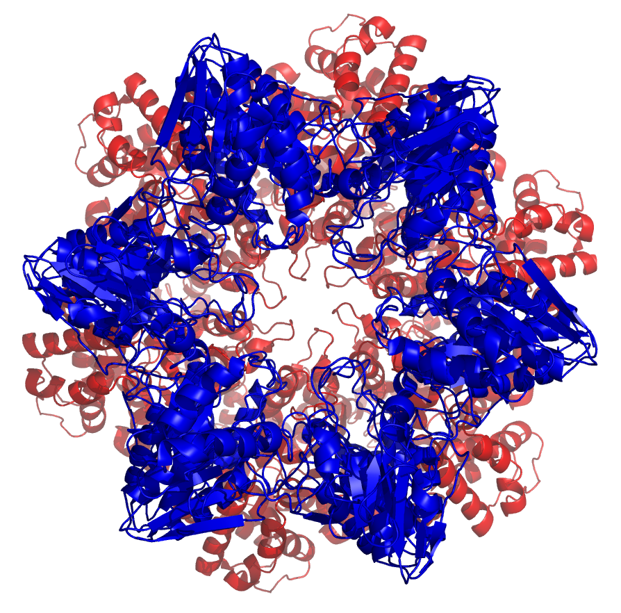 Bacterial hslV (protease; blue) and hslU (ATPase; red) proteins from E. coli (PDB ID 1G4A), thought to resemble the ancestor of the eukaryotic proteasome. Rendered using PyMol (